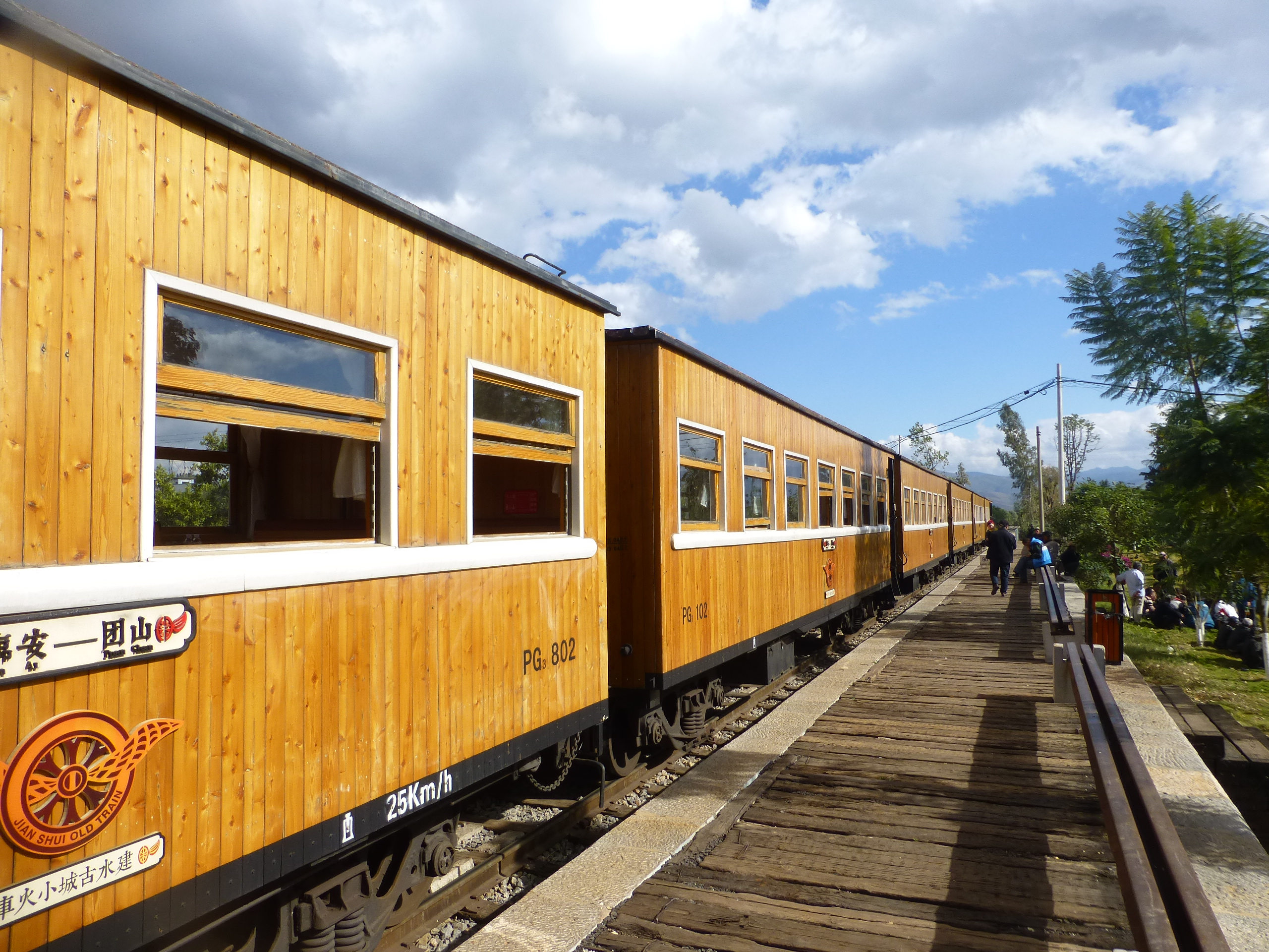 Shuanglongqiao Railway Station, on the Meng-Bao Railway, near the Shuanglong (Double Dragon) bridge southwest of Lin'an Town, Jianshui County. It is a small platform for the tourist train that runs between Lin'an and Tuanshan